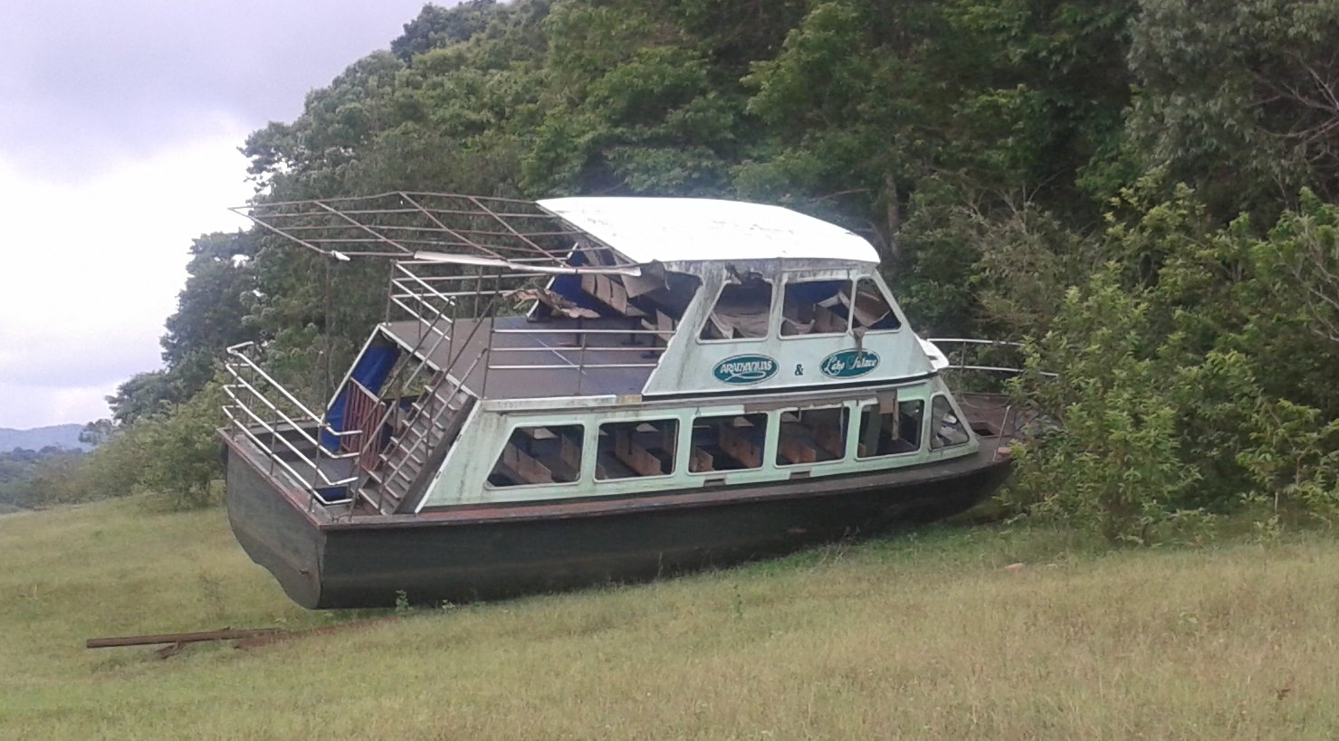 The Jalakanyaka boat, which sank on 2009 Thekkady boat disaster, is kept on shore (2013).